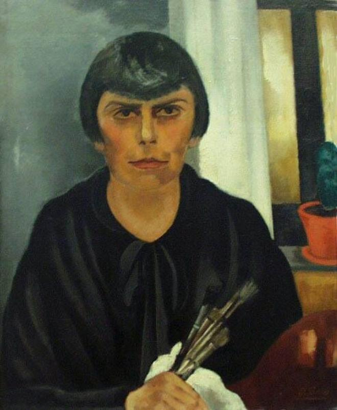 Self-portrait with Brushes